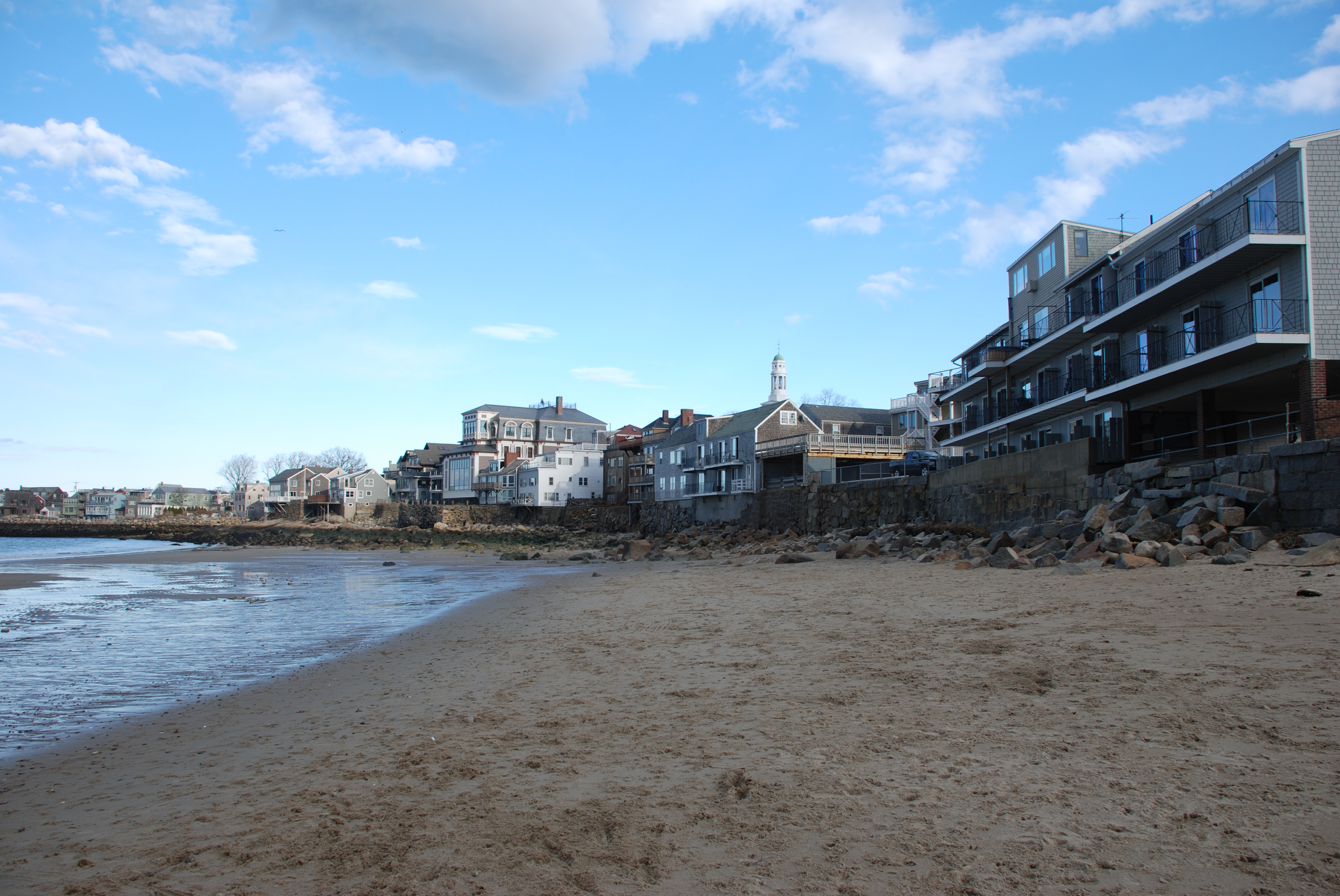 Houses at the Sandy Bay beach in Rockport (Massachusetts, USA)